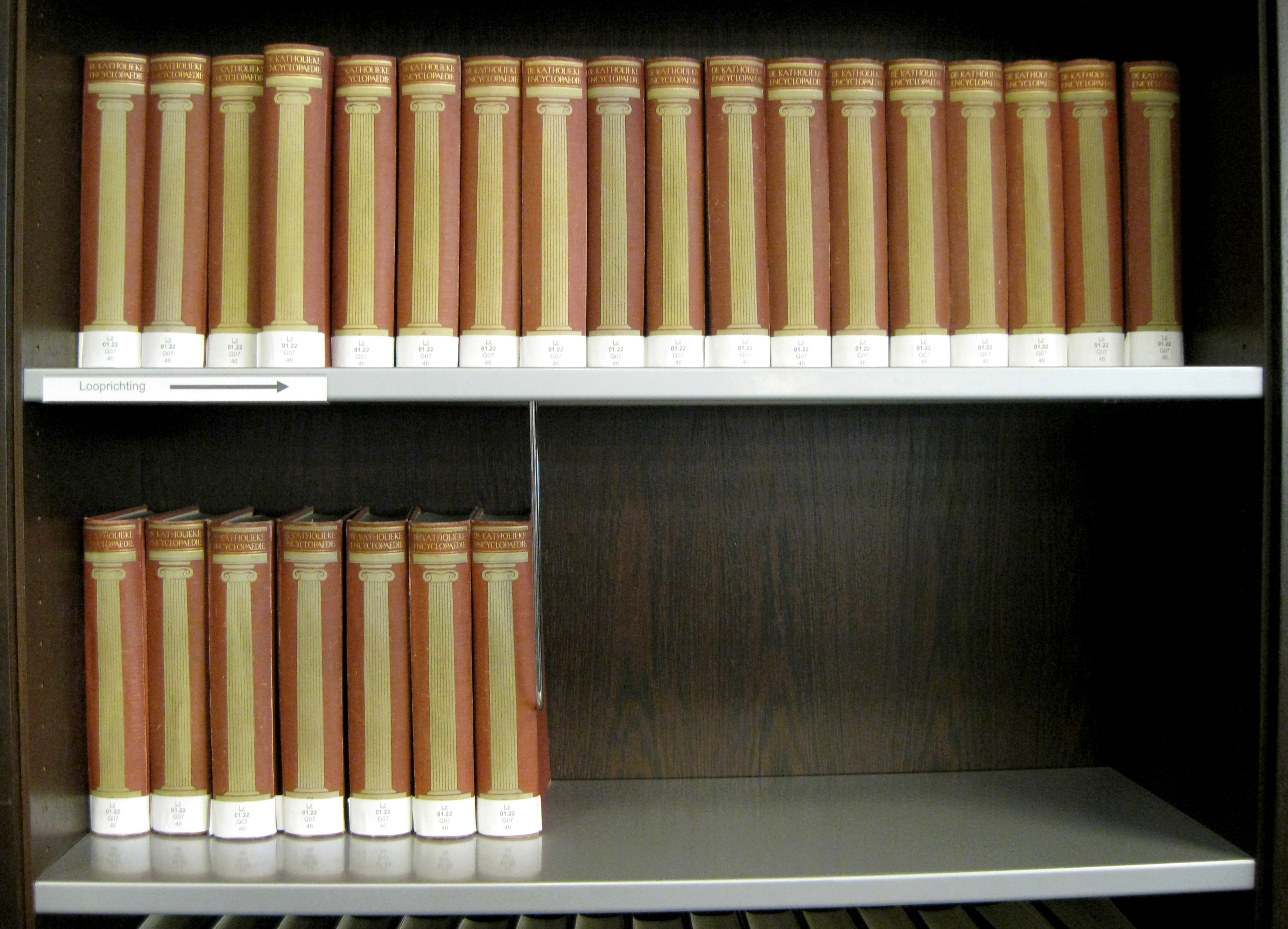 University library of Nijmegen: Catholic encyclopedia in Dutch, 1949-1955